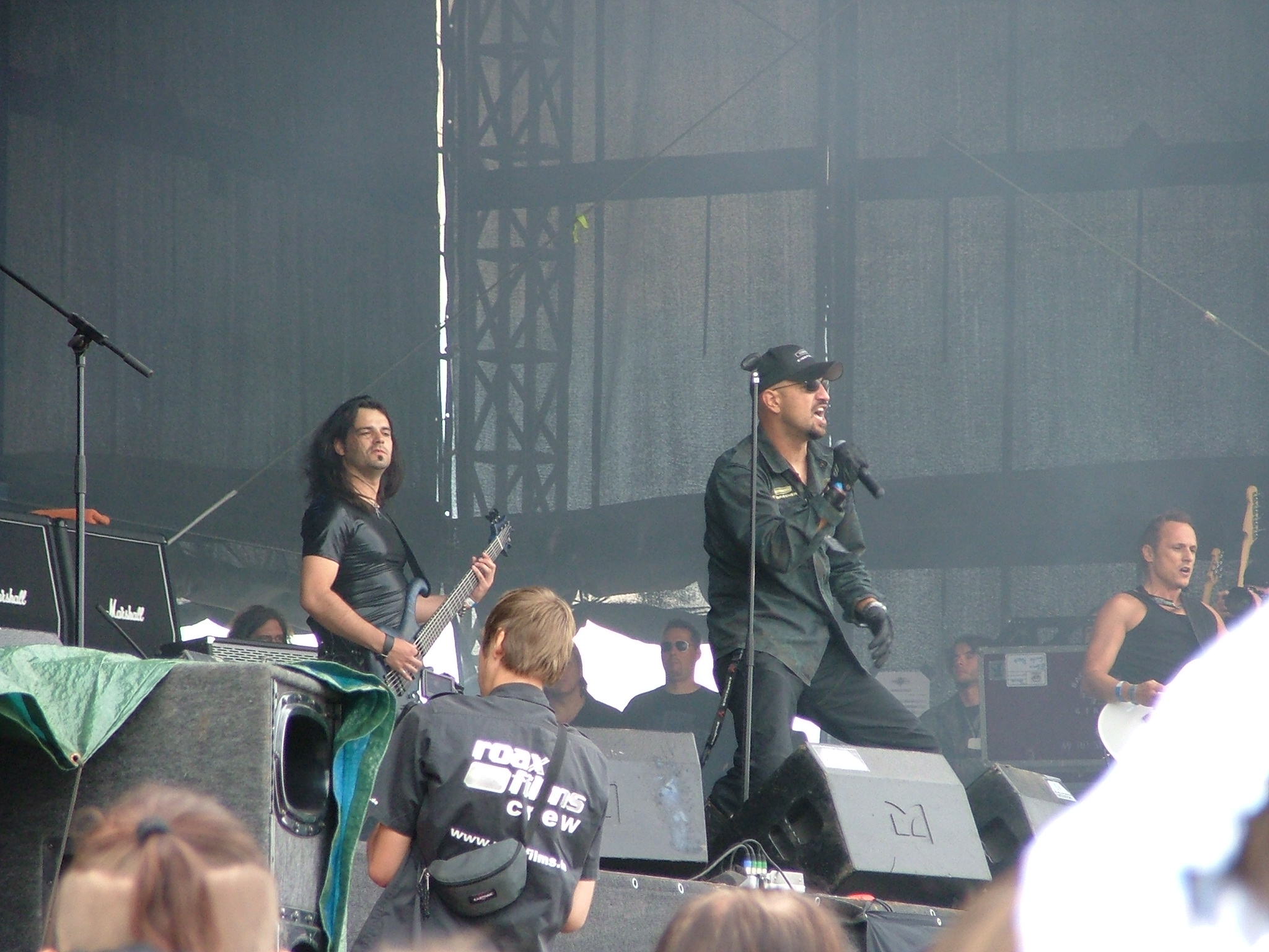 German metal/electronic music band Eisbrecher